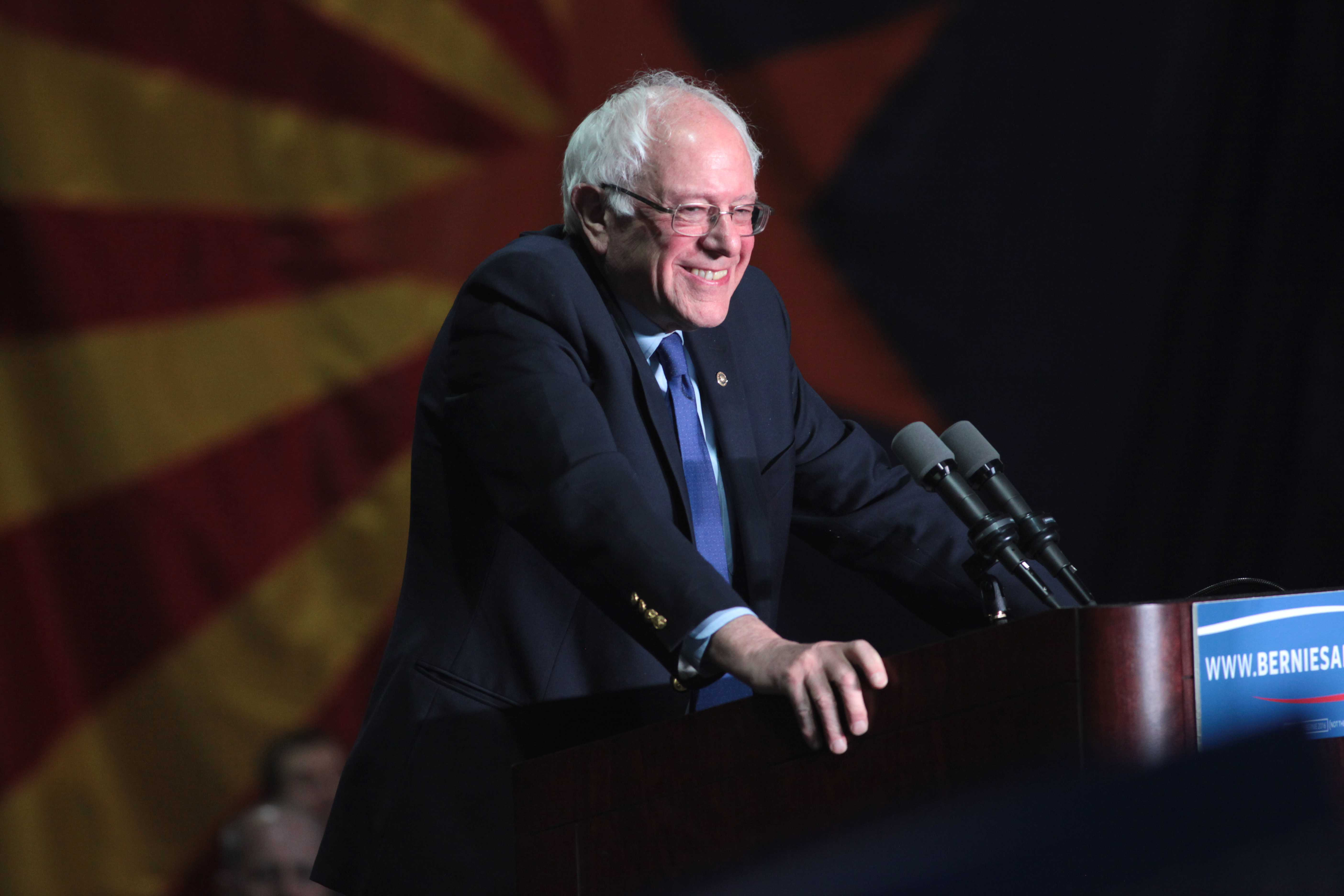 U.S. Senator Bernie Sanders speaking with supporters at a campaign rally at the Phoenix Convention Center in Phoenix, Arizona.